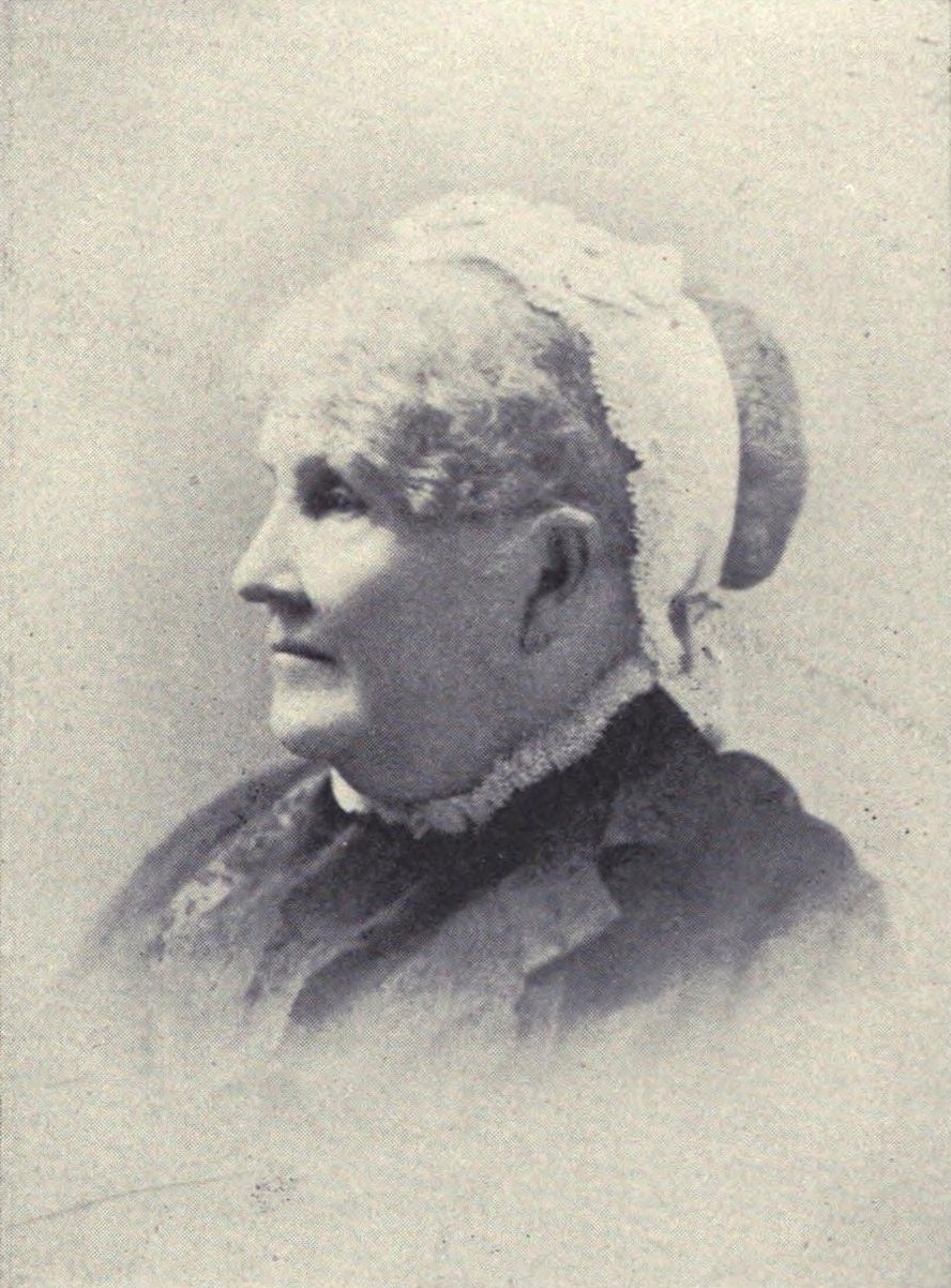 Mrs. Clarissa Chapman Armstrong (1805–1891), wife of Richard Armstrong, missionary to Hawaii. Richard and Clarissa Armstrong had ten children, including Samuel Chapman Armstrong (1839—1929). This photograph of her is taken in 1885 in California.